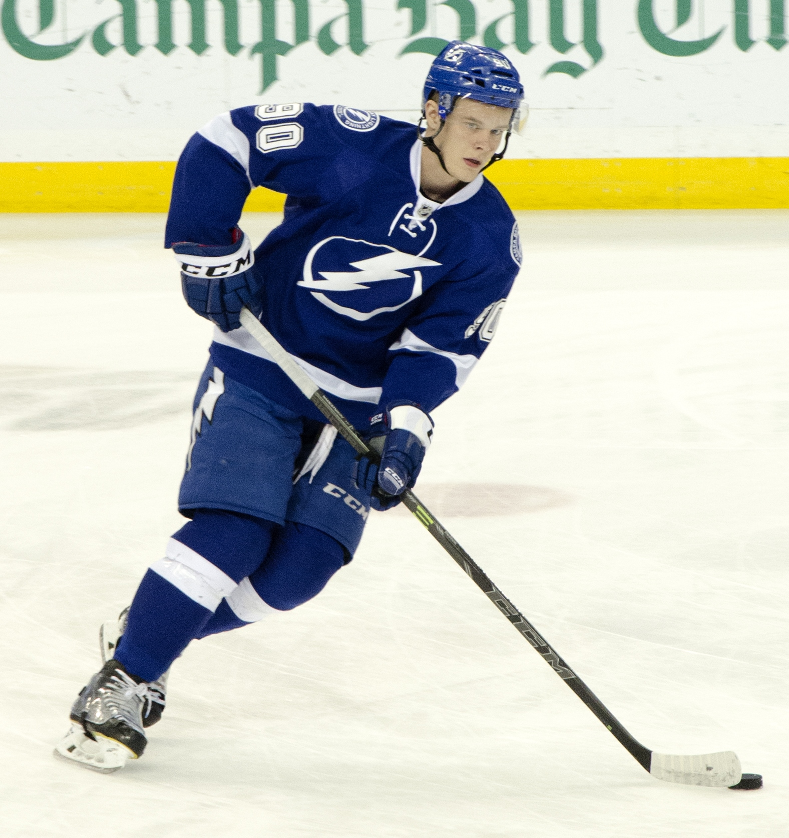 Namestnikov on March 24, 2015 during the warmup to the Florida Panthers at Tampa Bay Lightning game.